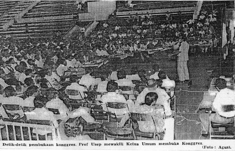 Seconds to the opening of the first Congress of PDI, with Professor Usep opening the congress.